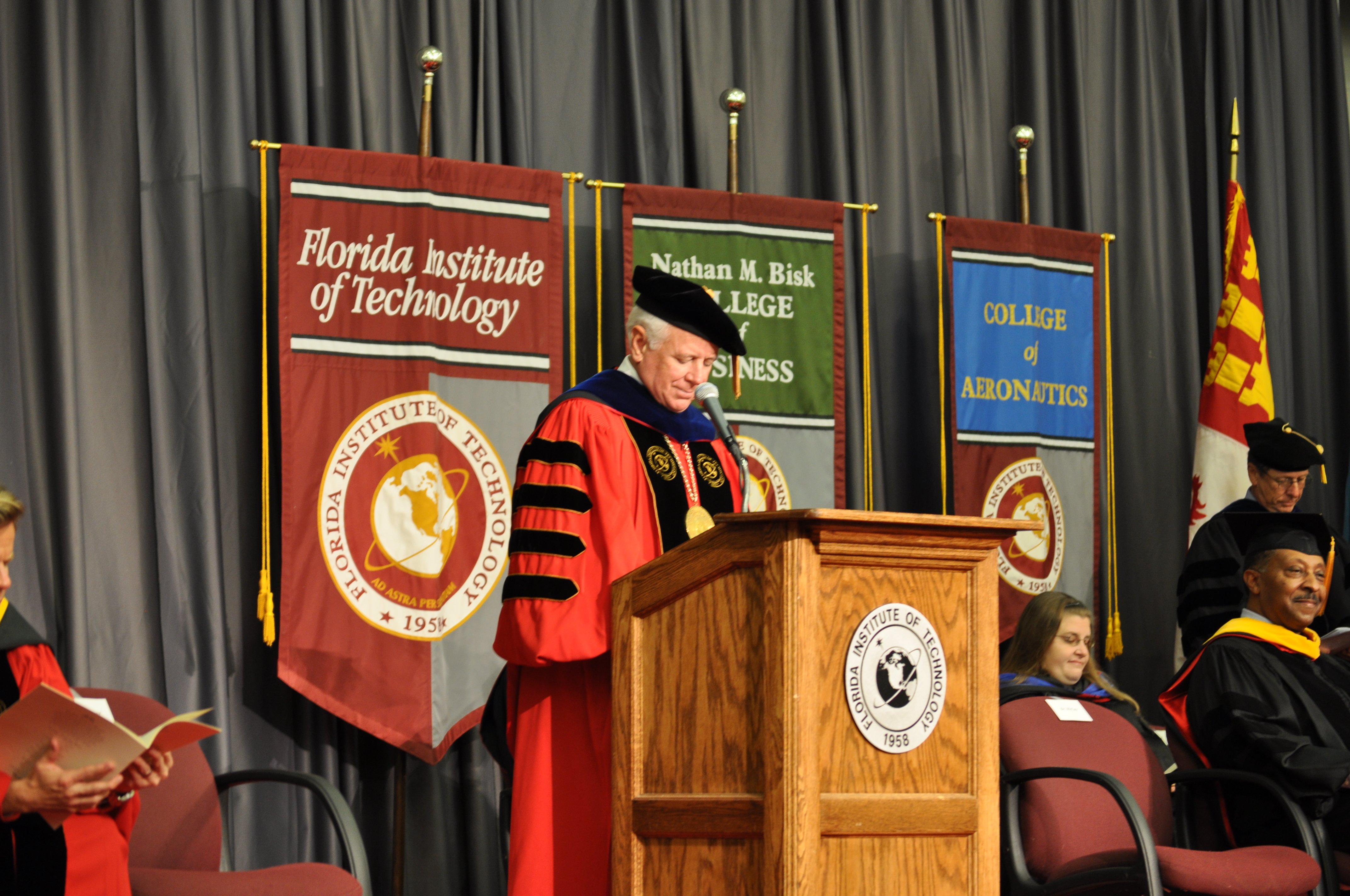 Anthony Catanese during the Fall 2010 Florida Institute of Technology Commencement Ceremony.